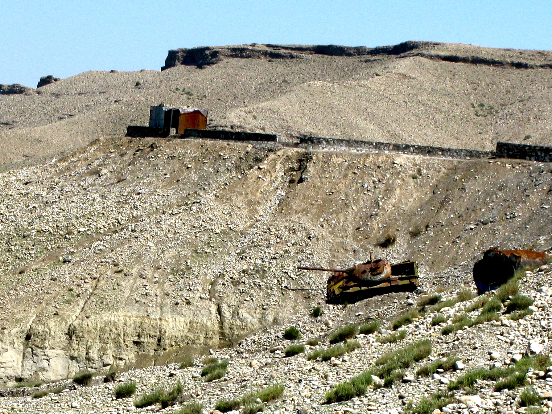 A Soviet tank run off the road between Jalalabad and Kabul.